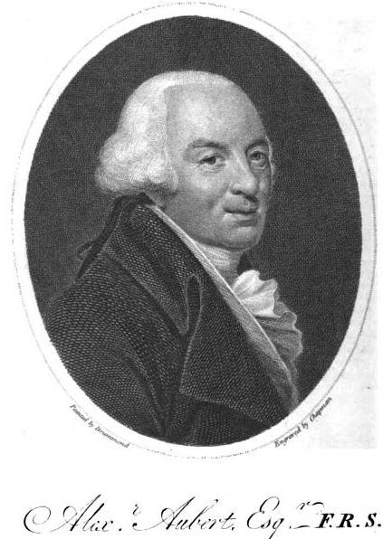 Engraved portrait of Alexander Aubert